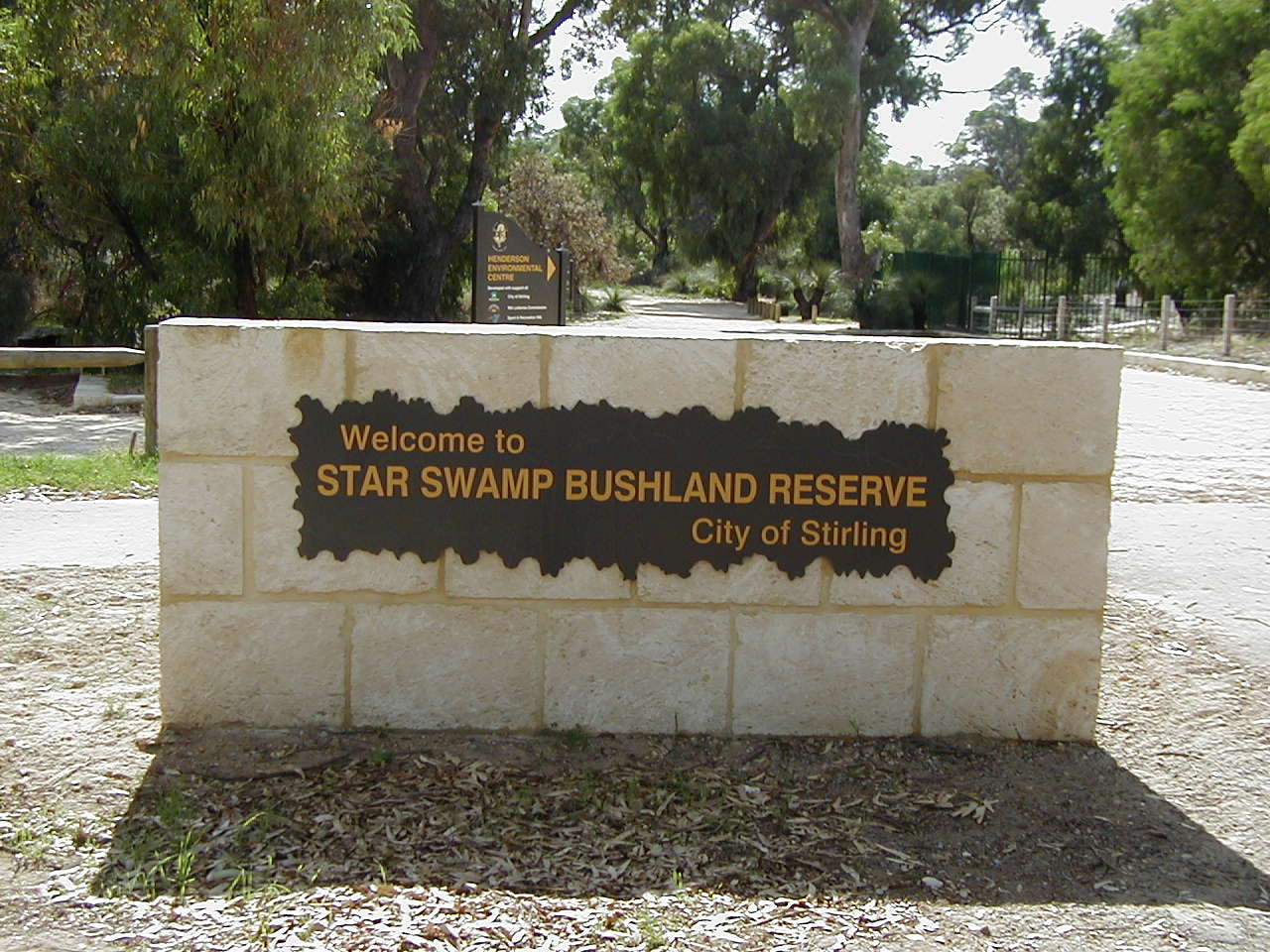 Star Swamp in suburban Waterman, Perth, Western Australia.